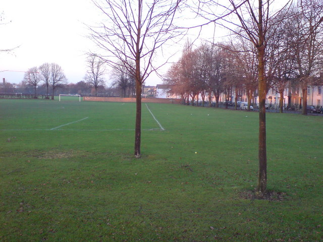 Garrison Sports Ground, Gillingham The low winter sun shines onto the houses on Marlborough Road.